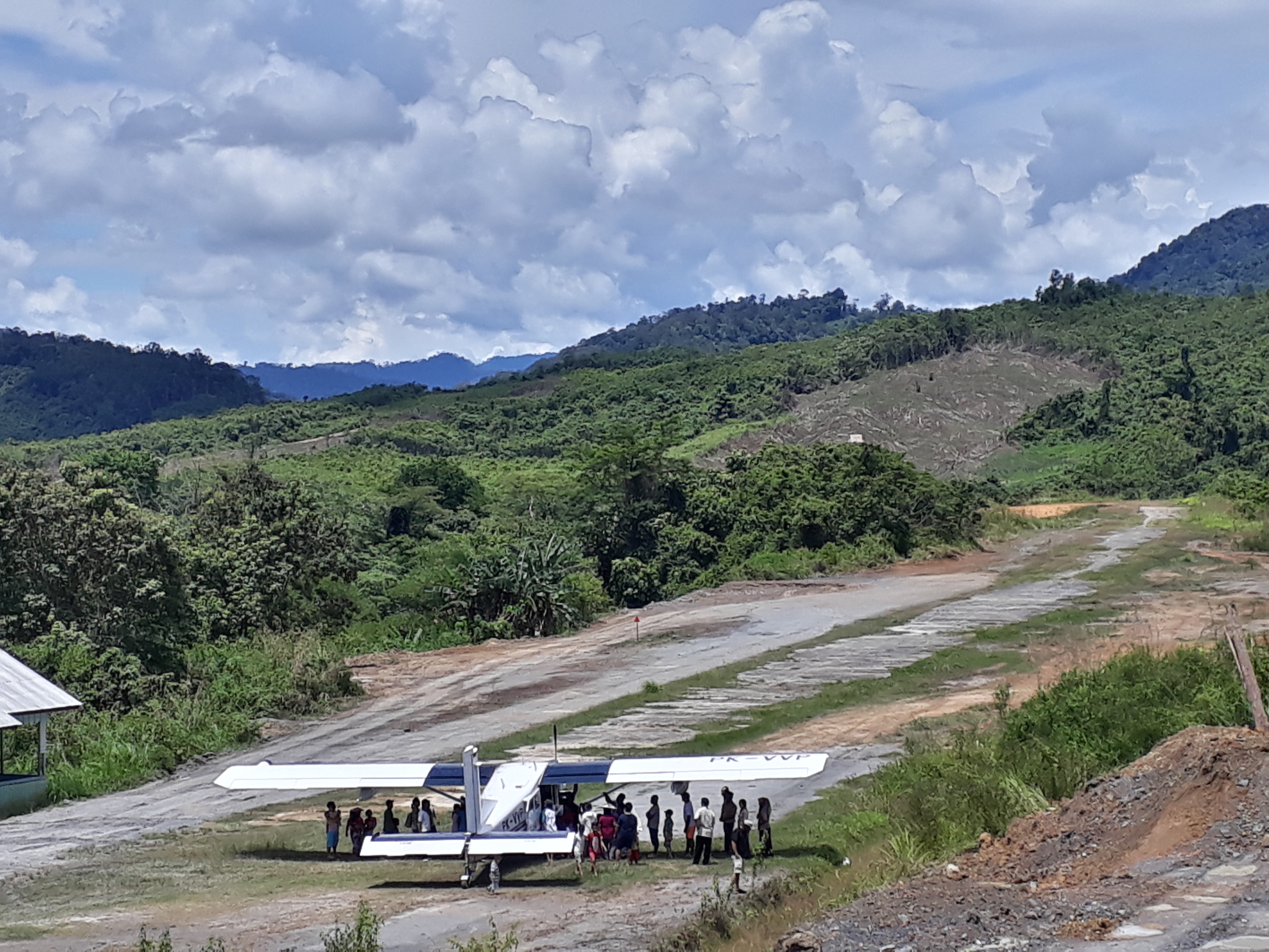 Rough Runway in the jumbles of Borneo, Kalimantan. It is surrounded by a river on the left and at the end of the strip. The approach is made very close to the top of the trees or from the river side. Rwy length is about 400mts paved with some old concrete slabs. Picture taken in October 2019.